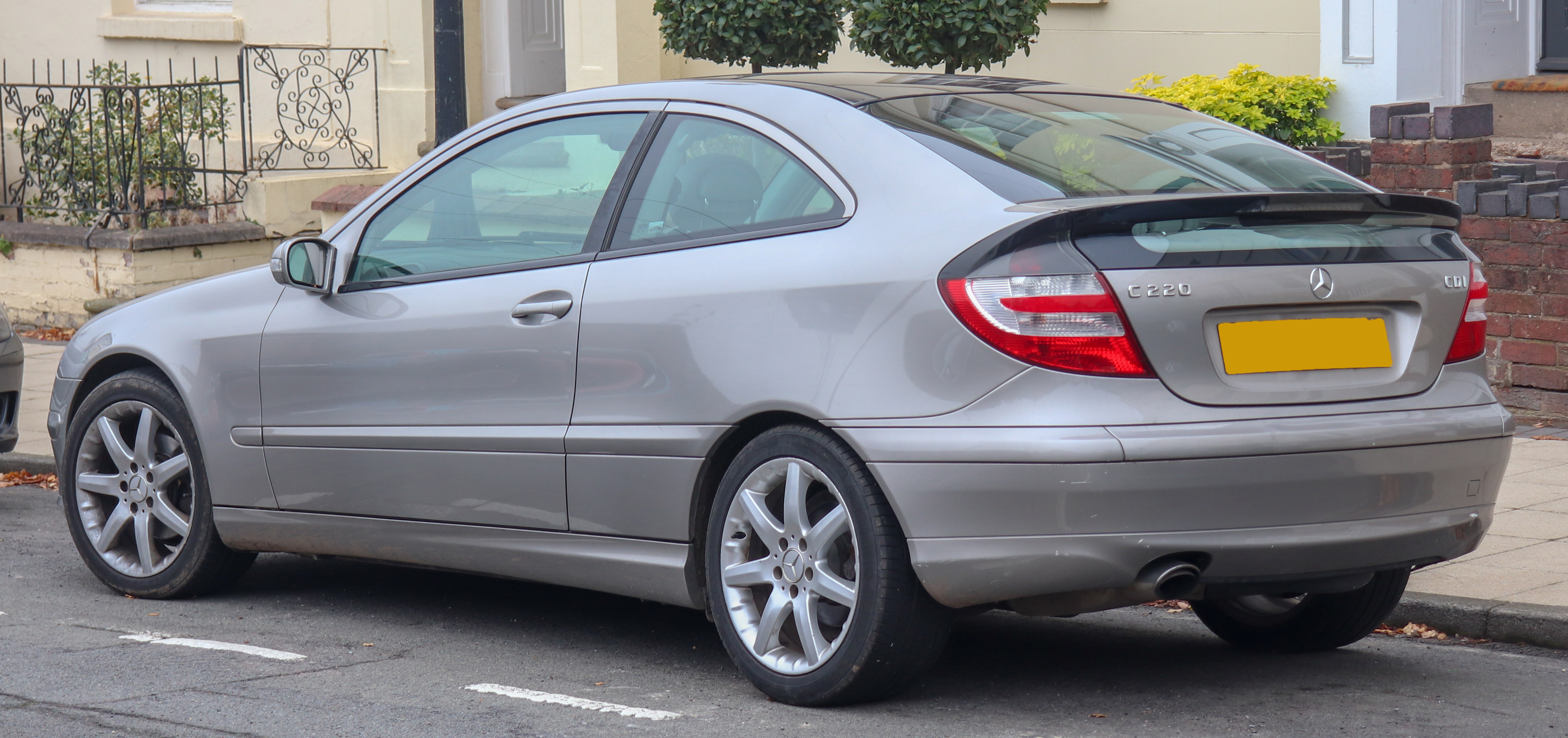 2006 Mercedes-Benz C220 CDi SE Automatic 2.1 Rear Taken in Leamington Spa